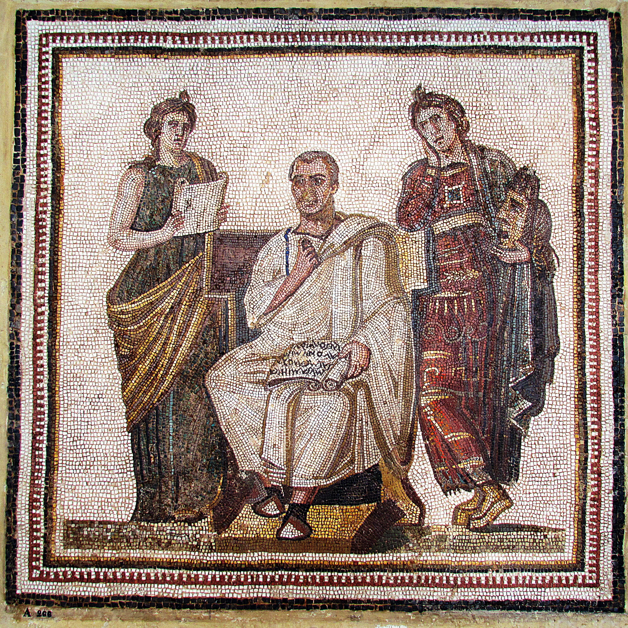 Virgil the poet mosaic (Bardo Museum)